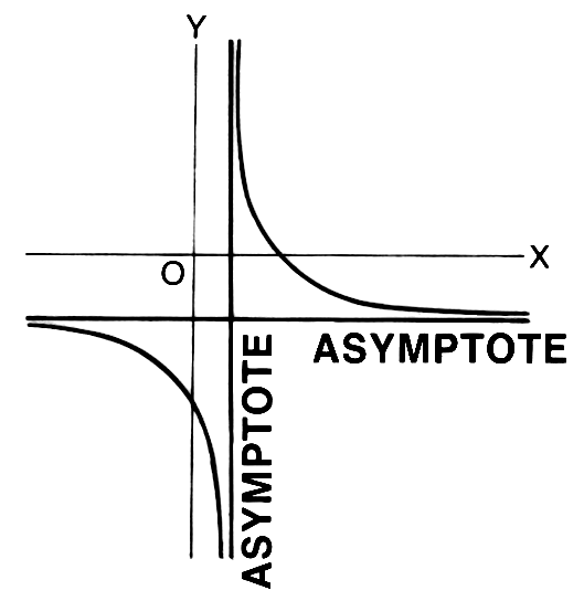 line art drawing demonstrating asymptote.